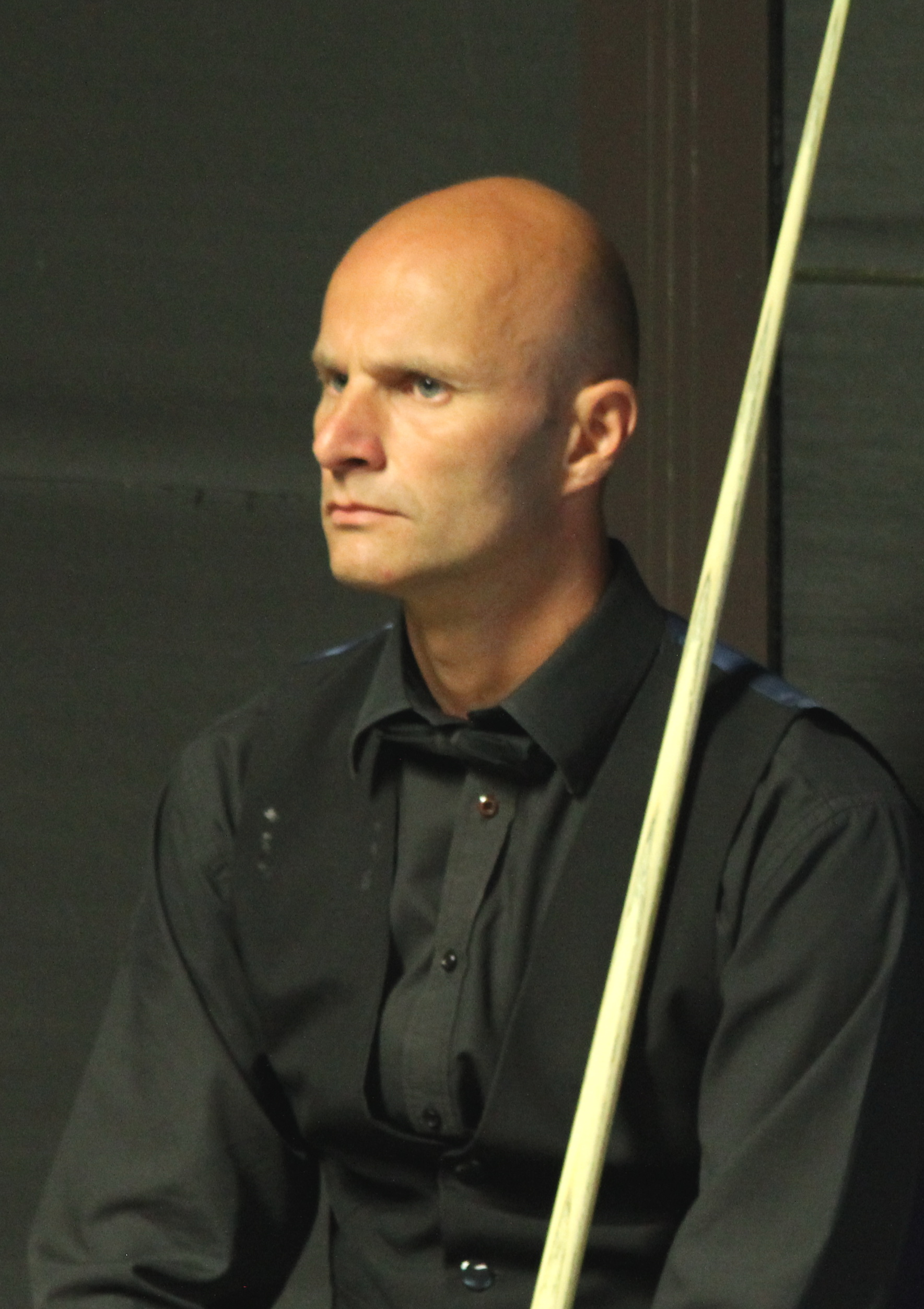 Andy Hicks beim Paul Hunter Classic 2016